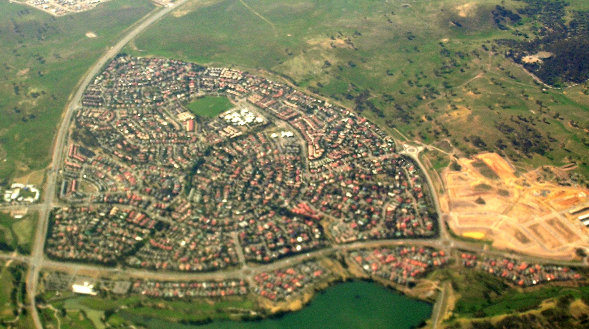 aerial view of Palmerson, Australian Capital Territory from north west